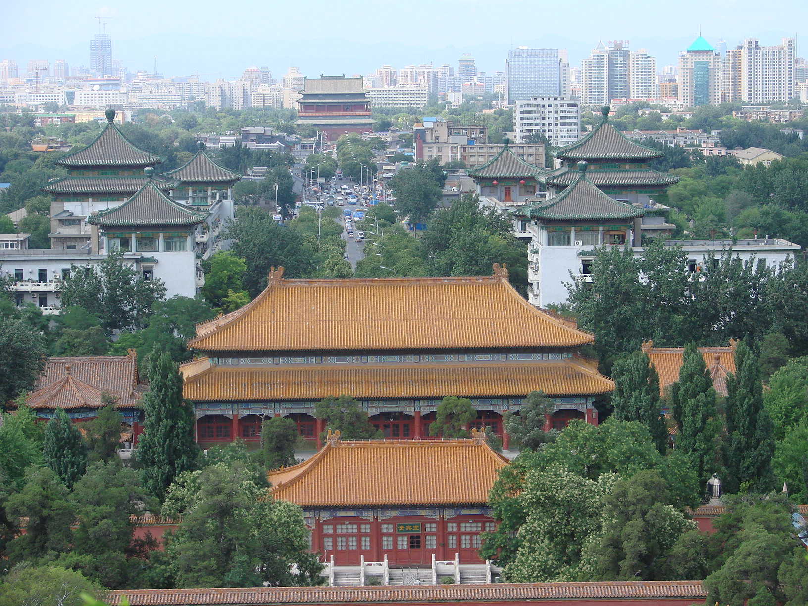 Image of the Forbidden City from the hills of the Jingshan Park